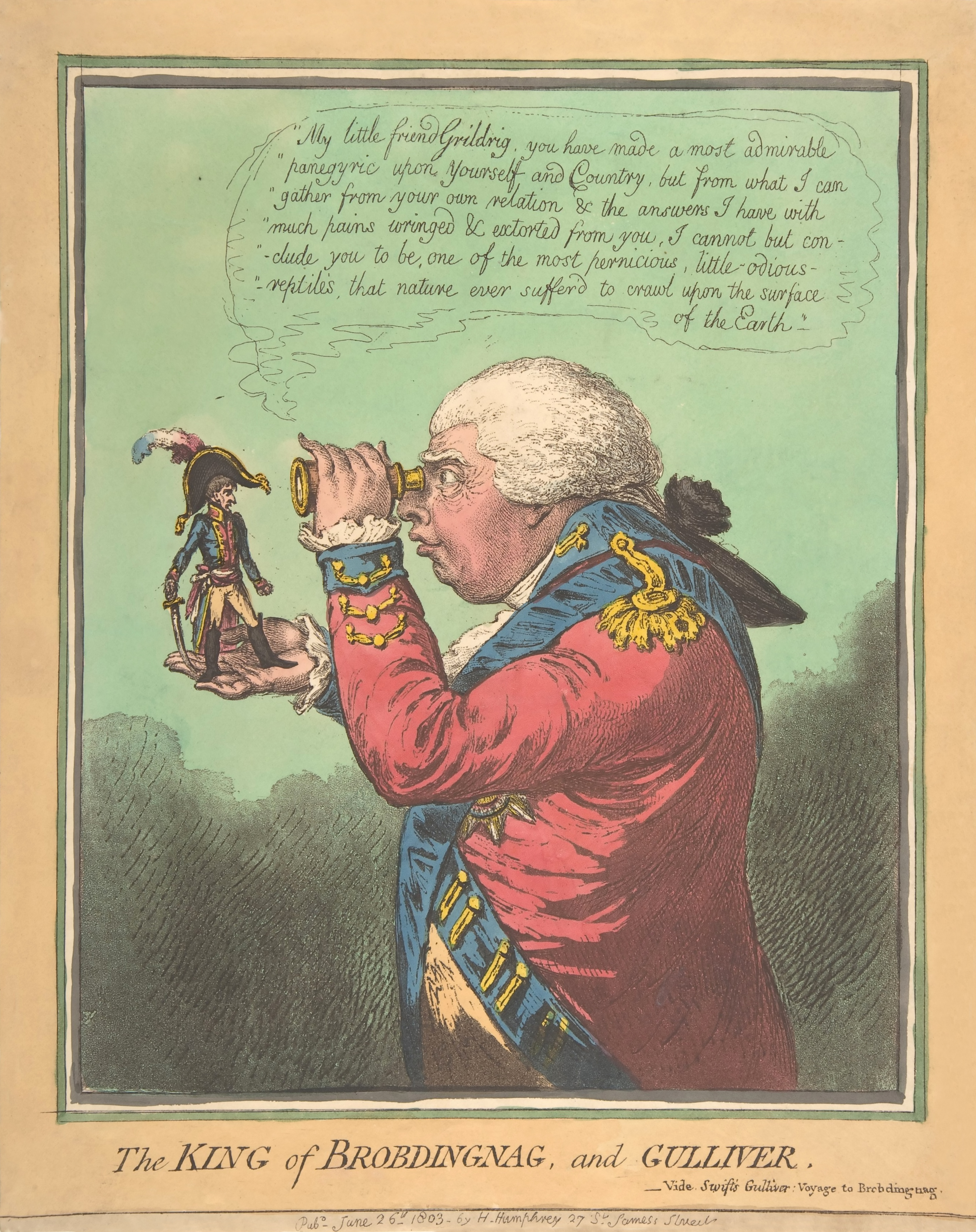 King of Brobdingnag and Gulliver Jonathan Swift's Gulliver's Travels. Gilray reuses some of his stock characters; George III of the United Kingdom as the "King of Brobdingnag" and a miniscule General Napoleon in the role of "Gulliver". Restored from File:The King of Brobdingnag and Gulliver.–Vide. Swift's Gulliver Voyage to Brobdingnag.jpg (water damage removed, slightly straightened, despecked)